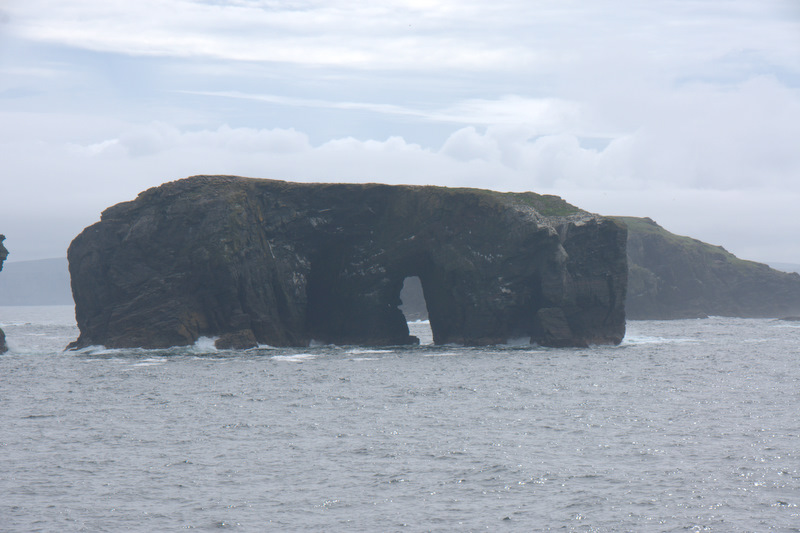 The natural arch in Flodda, Ramna Stacks